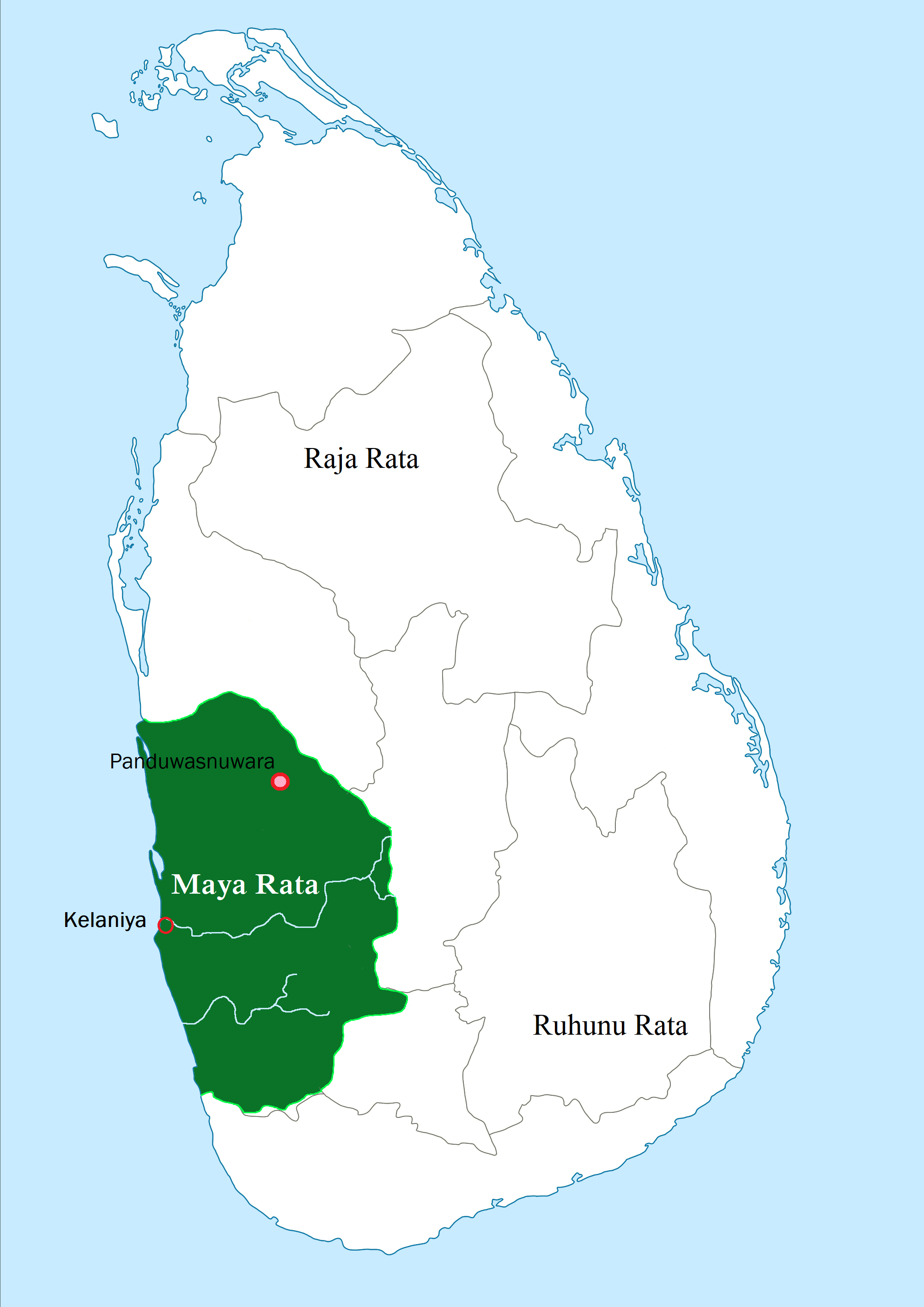 The Maya Rata (Principality of Maya Rata), also known as the Kingdom of Dakkinadesa, was a medieval era Sinhalese kingdom located in Western part of Sri Lanka.